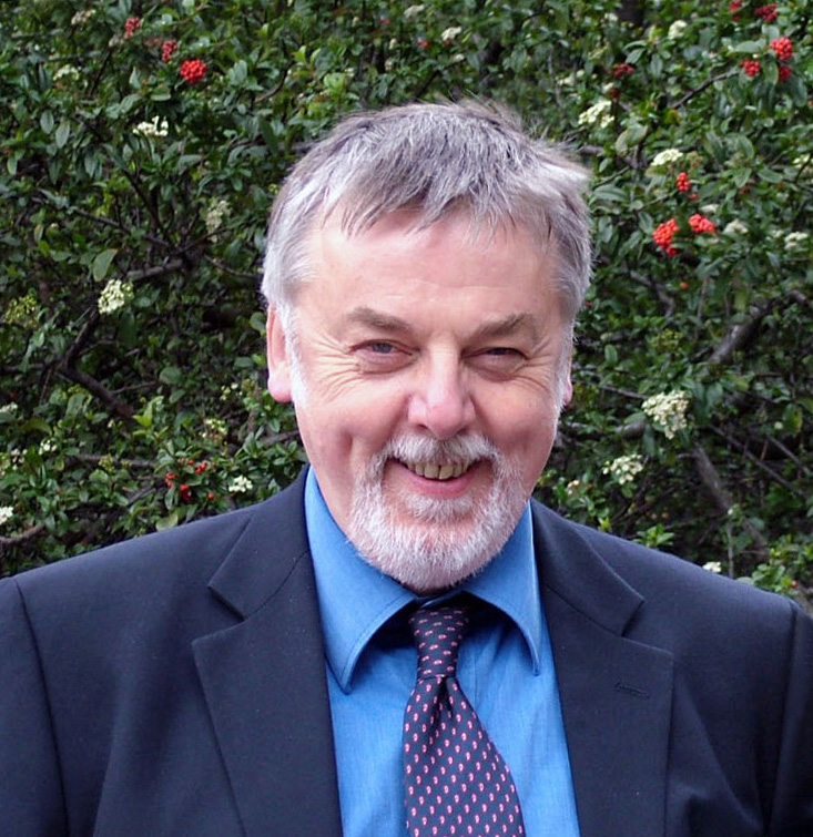 2006 photo of Geoffrey Hodgson by his wife.